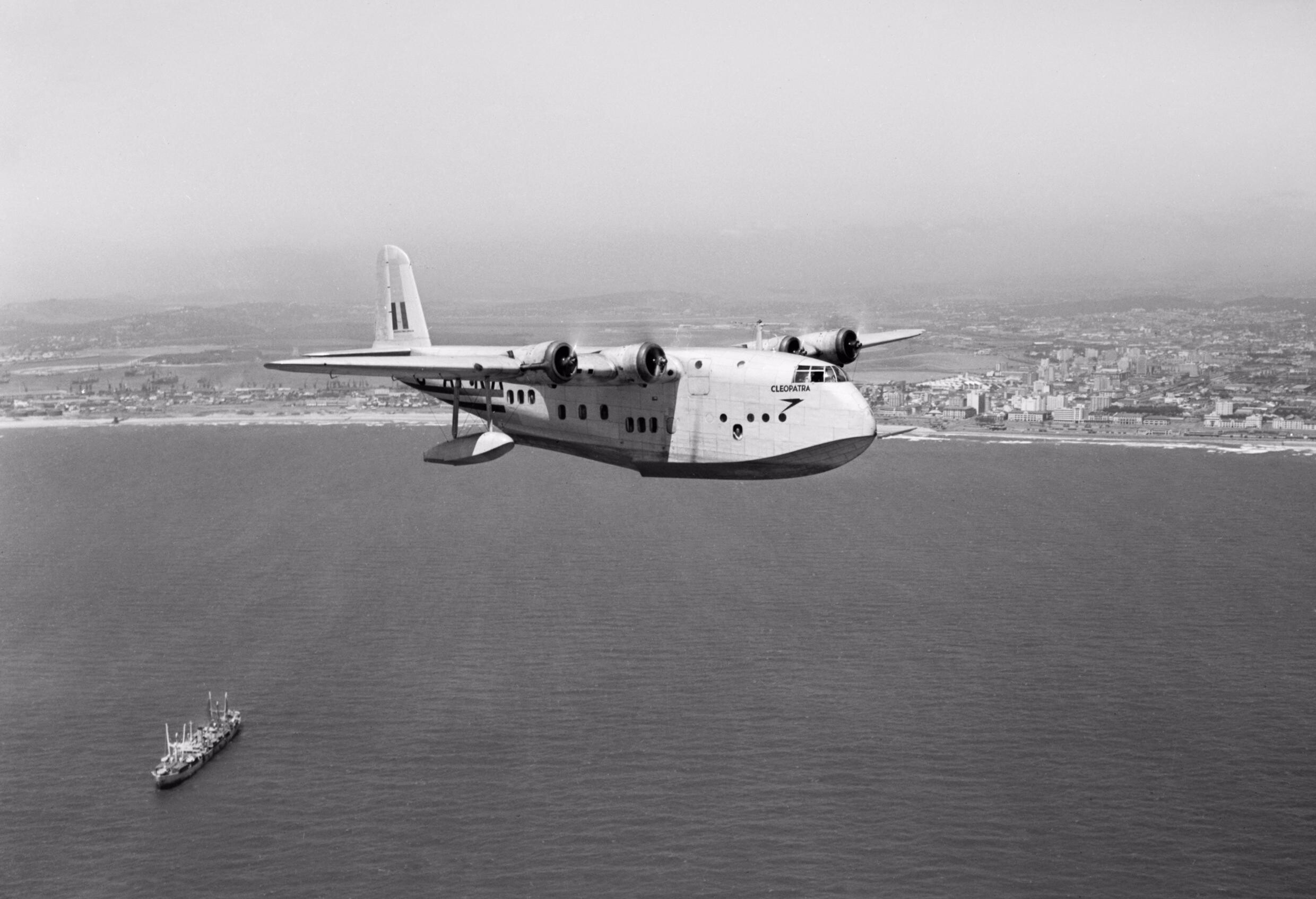 British Overseas Airways Corporation and Qantas, 1940-1945. Short S.33 'C' Class Empire Flying Boat, G-AFRA "Cleopatra" of BOAC, circling Durban, South Africa, prior to landing on the harbour after flying the "Horseshoe route" from Sydney, Australia. "Cleopatra" was the last 'C' Class Empire Flying Boat to be built and was handed over to BOAC in May 1940.